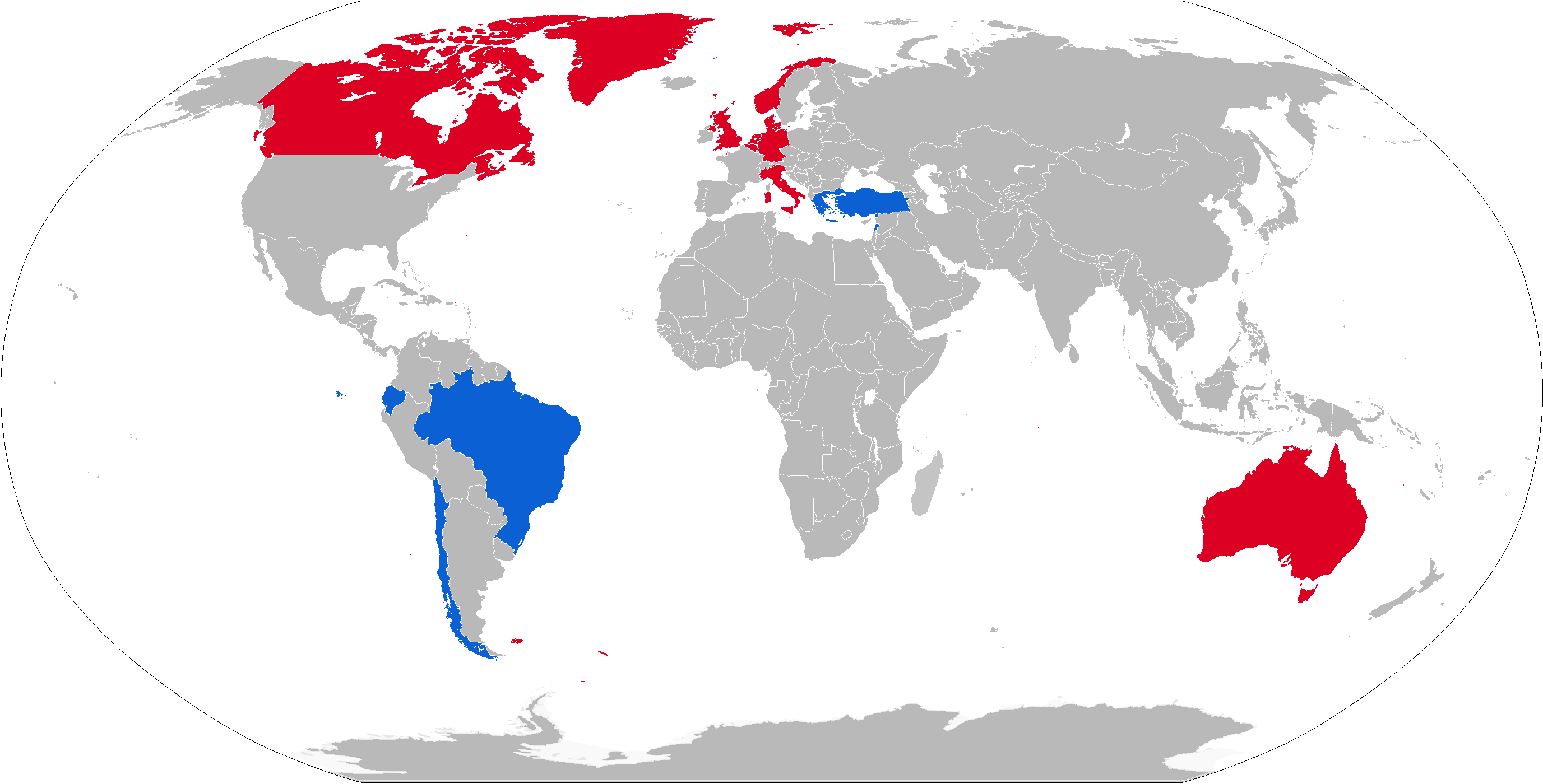 Map of Leopard 1 operators